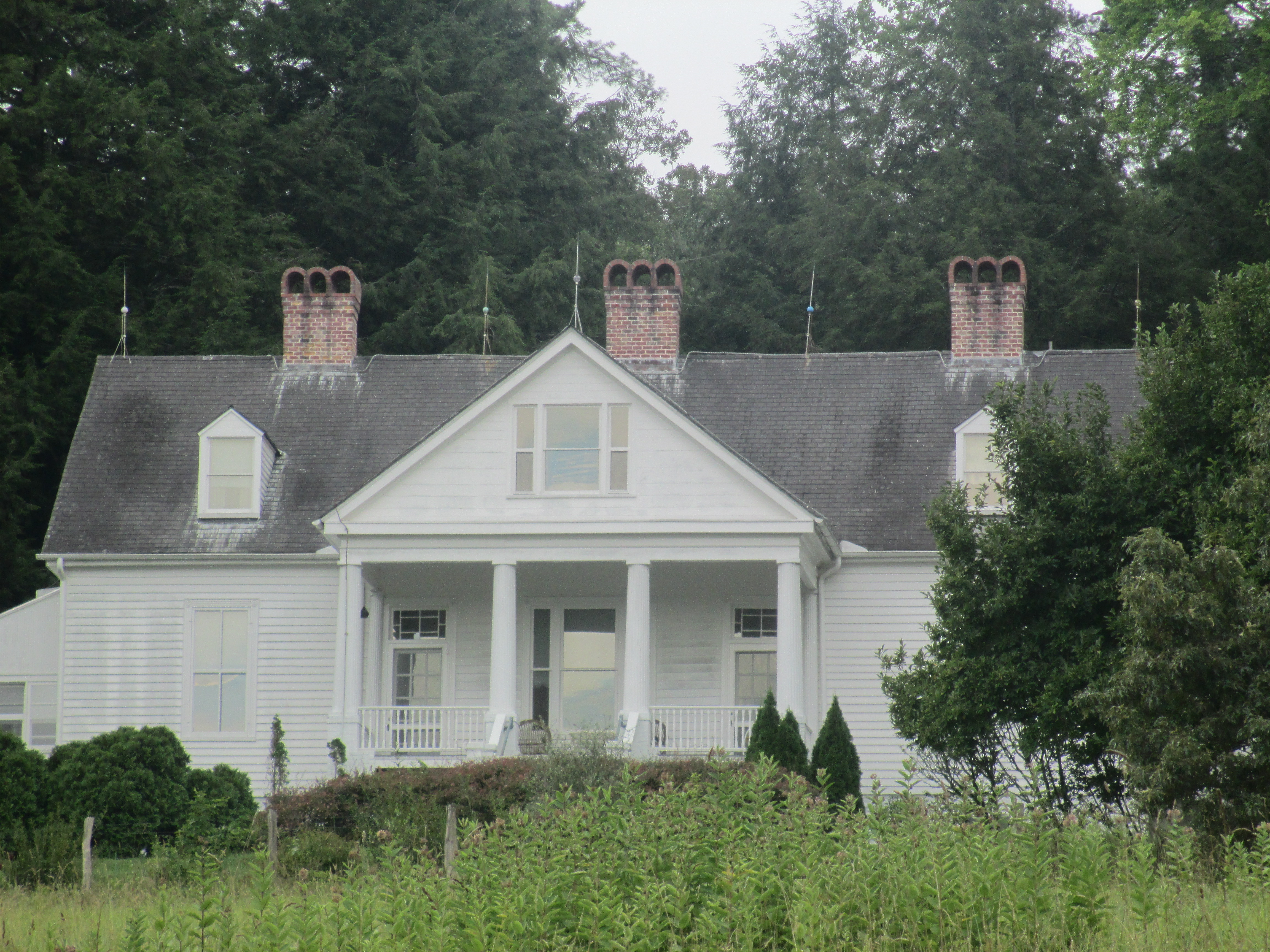 I took photo of Sandburg house in Flat Rock, NC, with Canon camera.